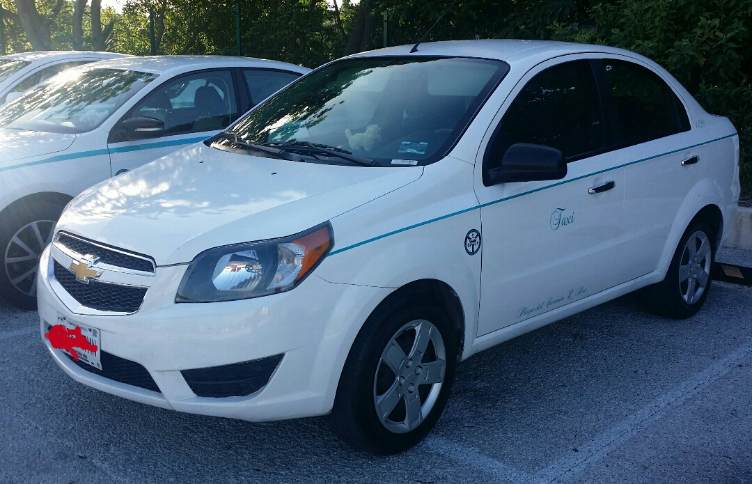 2017 Chevrolet Aveo photographed in Cancun , Quintana Roo, Mexico.